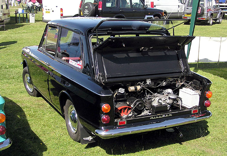 Hillman Imp (unknown year) at Bristol Car Show, The Downs, Bristol, England. The opening rear window can be seen. Taken by Adrian Pingstone in June 2004 and released to the public domain.